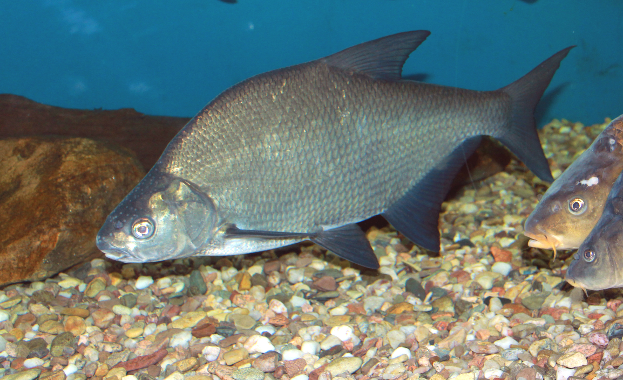 Common bream on exhibition Subaqueous Vltava, Prague 2011, Czech Republic